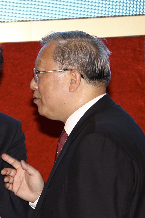 CAS Reception 2009, CAS Chairman Lu Yongxiang (right) speaking to GISAID President Peter Bogner (center) and International Academy of Sciences President John Campbell (left)